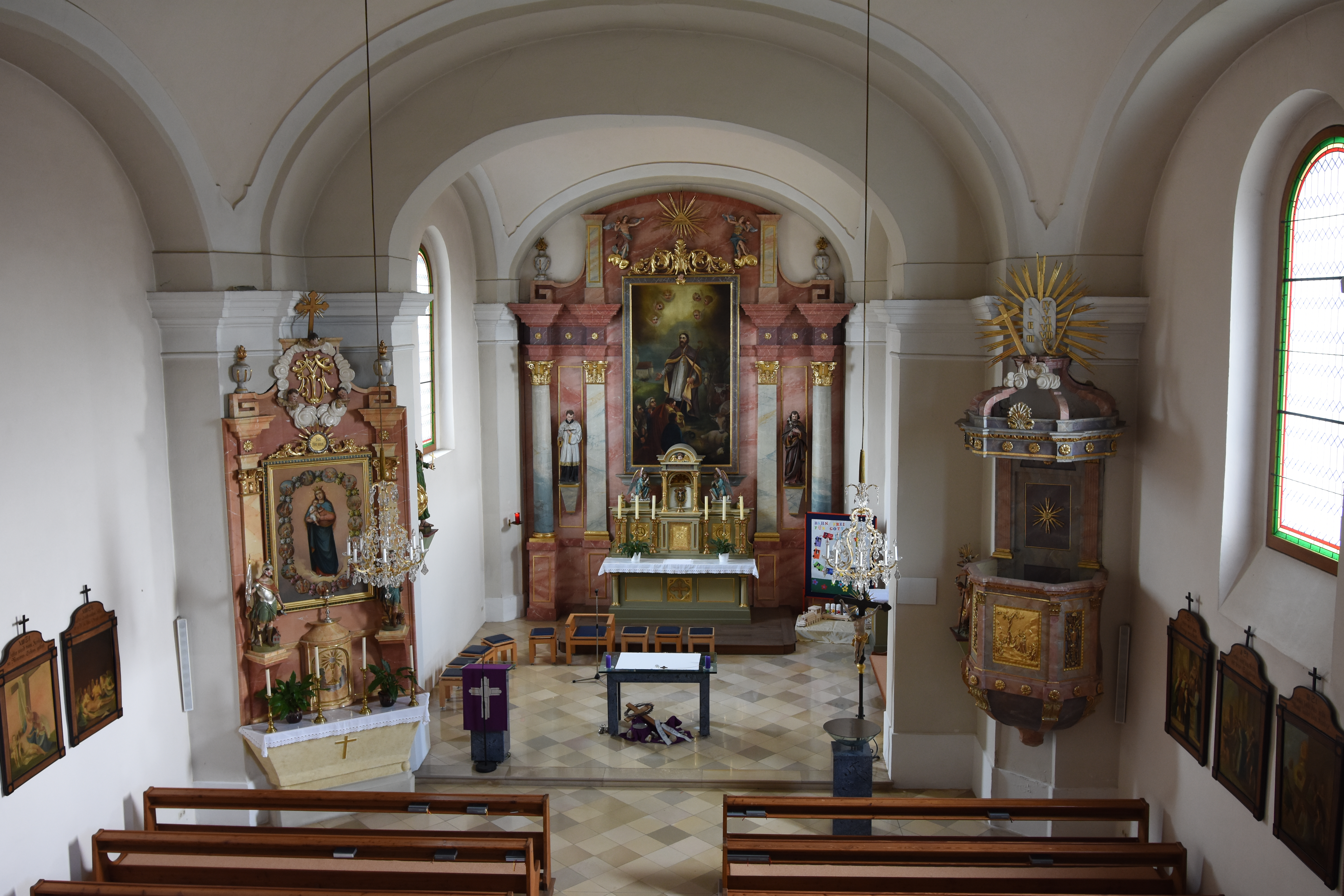 Church hl. Leonhard (Litzelsdorf) - Interior